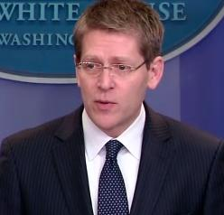 Jay Carney giving a press briefing.